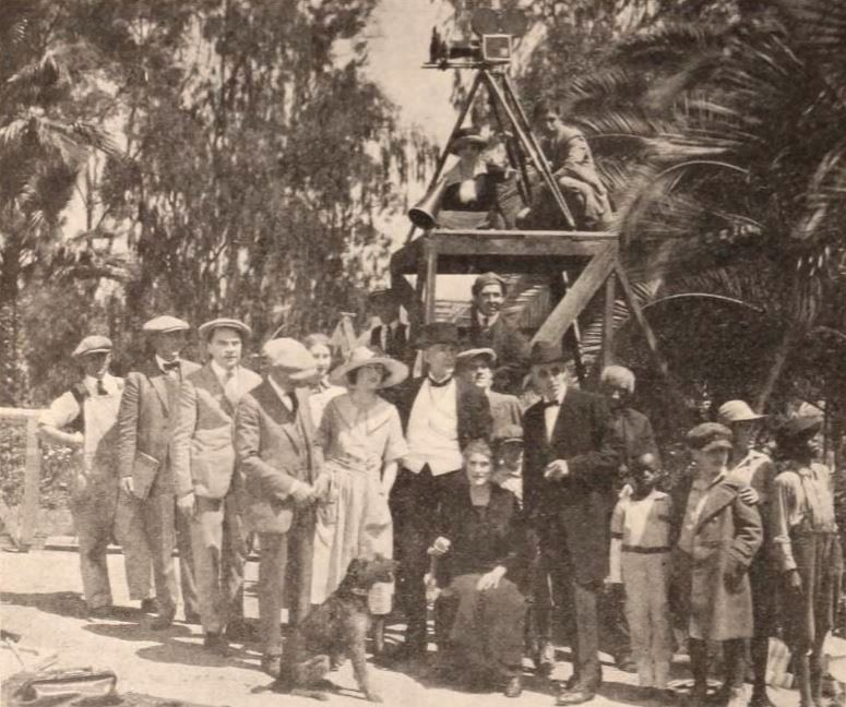 Still from the American drama film The Lying Truth (1922) with director Marion Fairfax and photographer René Guissart on the platform, the caption states co-director Hugh McClung (who is not listed in the IMDB) and cast members Pat O'Malley and Charles Hill Mailes are present, also visible are Claire McDowell (seated) and Marjorie Daw, on page 36 of the May 21, 1921 Exhibitors Herald.